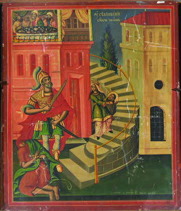 Beheading of St John the Baptist icon by Petar Novev in Nativty of Mary Church in Dunavtsi